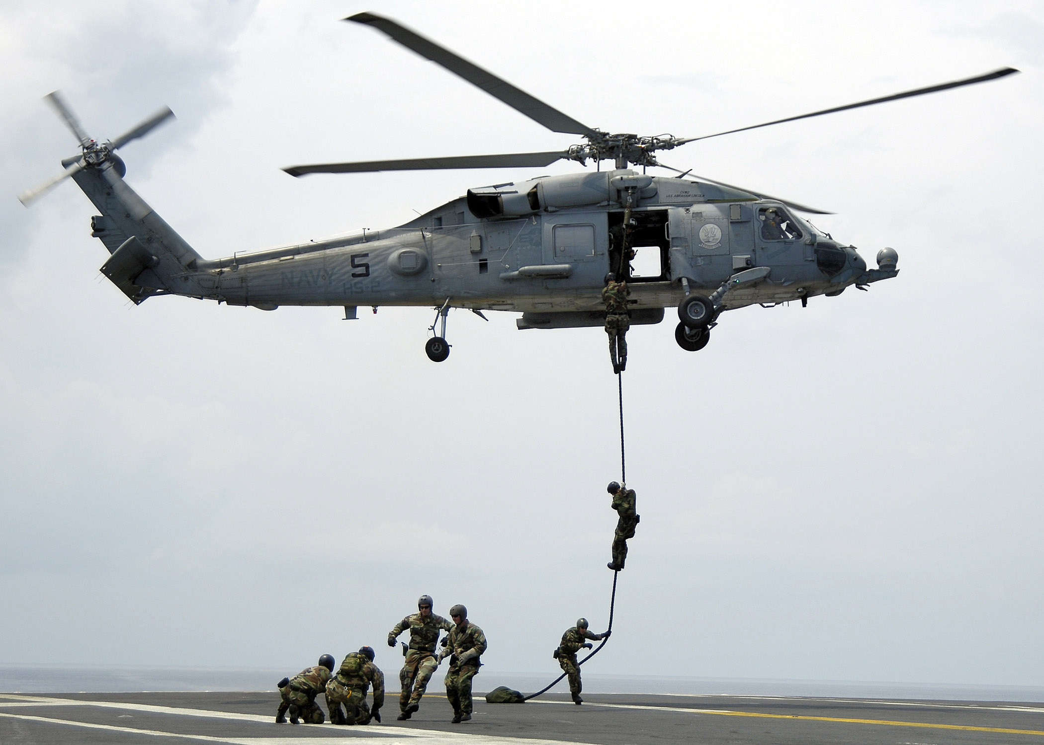 South China Sea (April 17, 2006) - Members of Explosive Ordnance Disposal Mobile Unit Eleven (EODMU-11) Detachment 9, fast rope from an SH-60F Seahawk helicopter assigned to Helicopter Anti-Submarine Squadron Two (HS-2), during an air power demonstration held for Sailors aboard USS Abraham Lincoln (CVN 72). Lincoln and Carrier Air Wing Two (CVW-2) are currently underway to the Western Pacific for a scheduled deployment. U.S. Navy photo by Photographer's Mate 3rd Class Jordon R. Beesley (RELEASED)